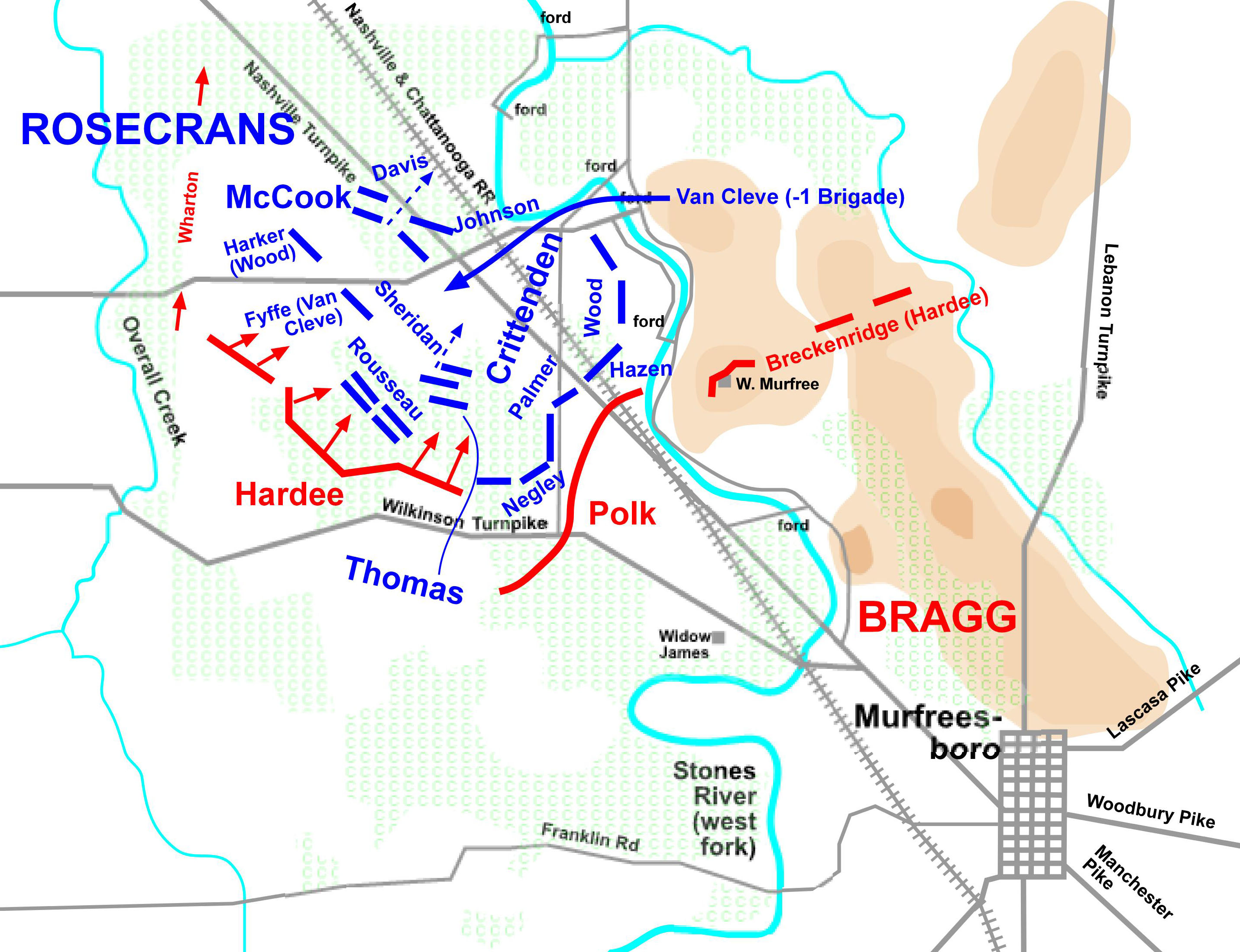 Battle of Stones River, 11:00 Dec 31, 1862. Drawn by Hal Jespersen in Macromedia Freehand. Source file available in